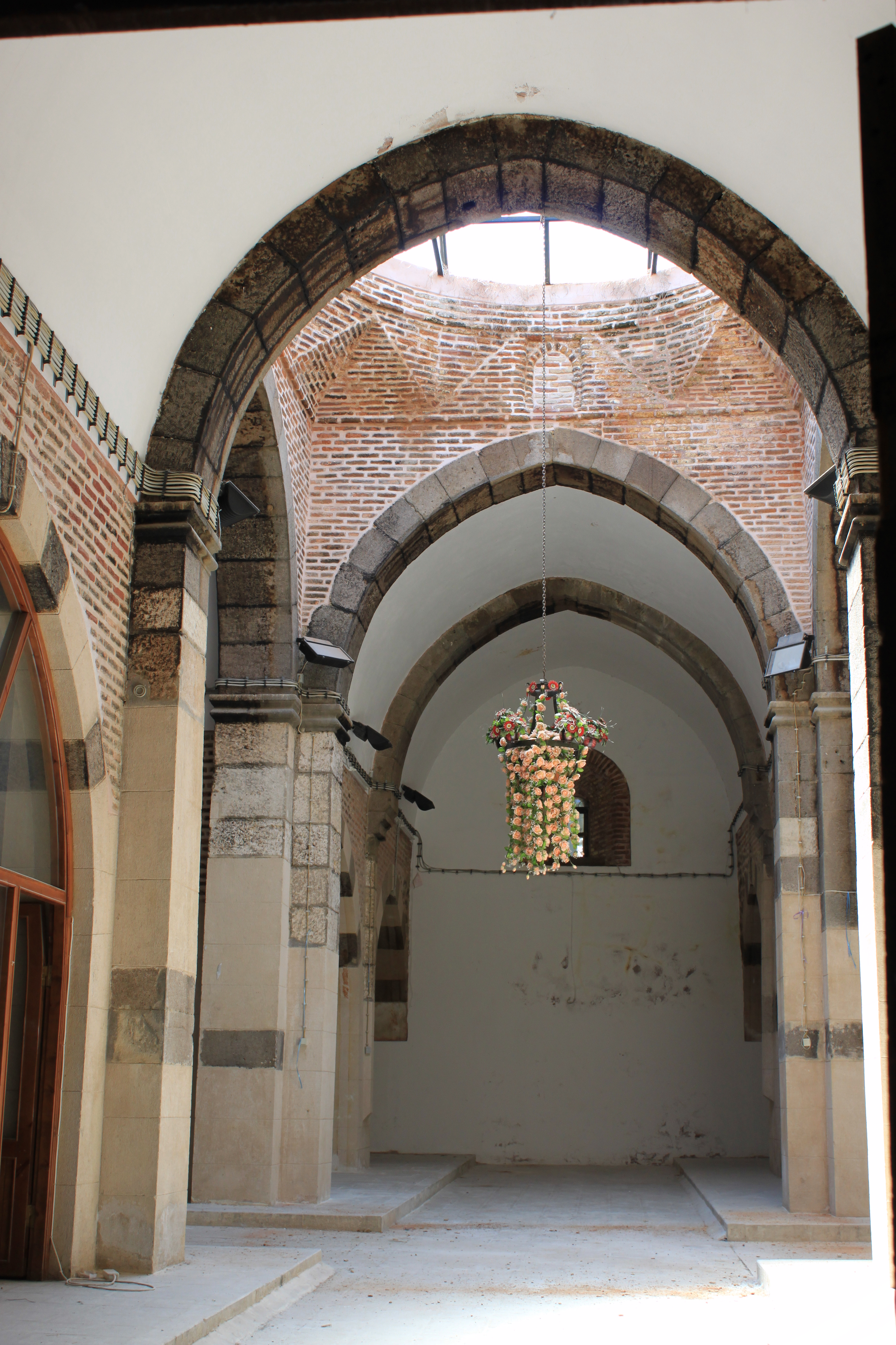 Çay; Seljuk-Kervansaray; inside .Built by General Ebûl Mucahit bin Yakup under Sultan Kai Khosrau III.